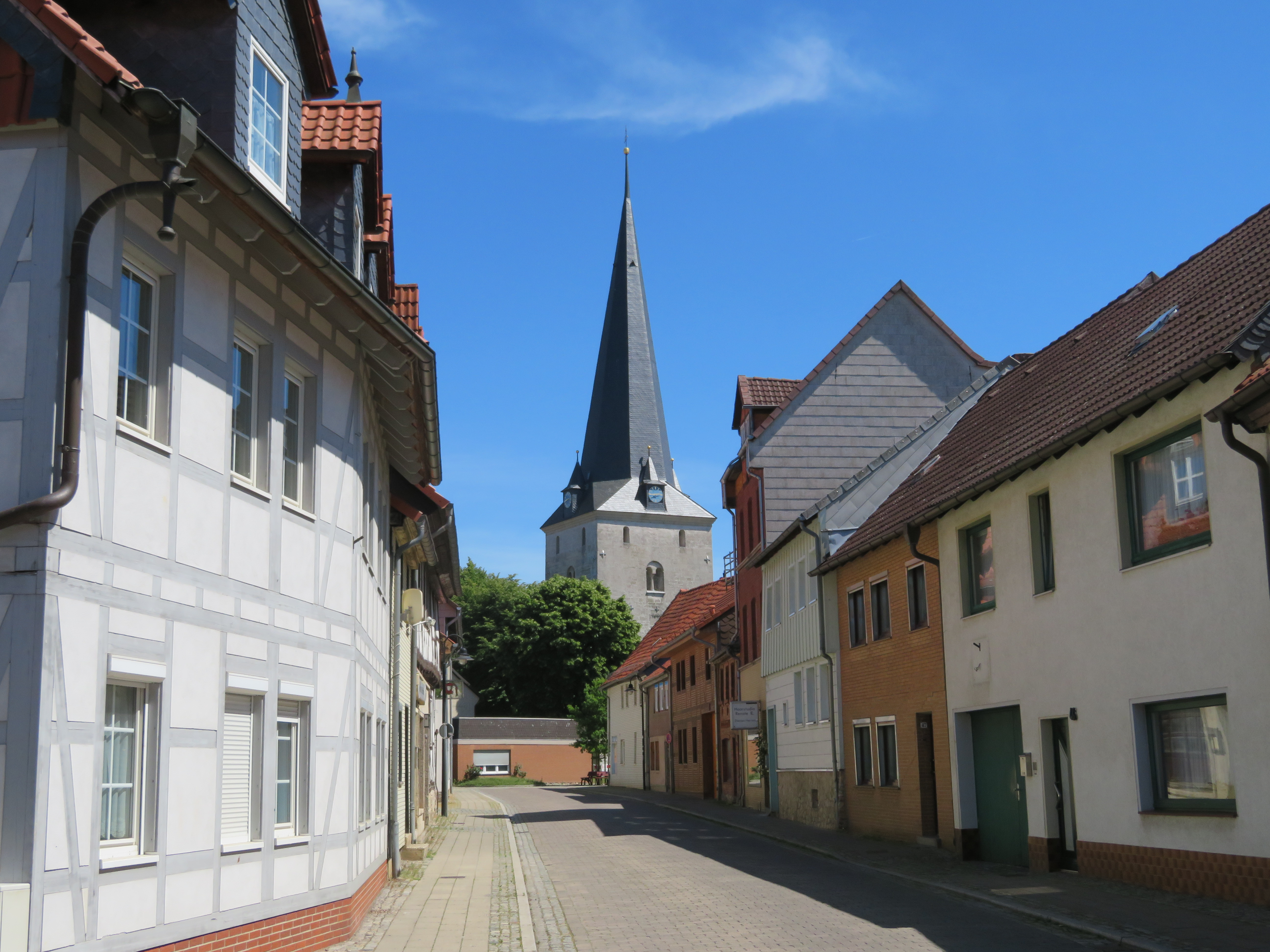 Town centre, Schöppenstedt, Lower Saxony, Germany